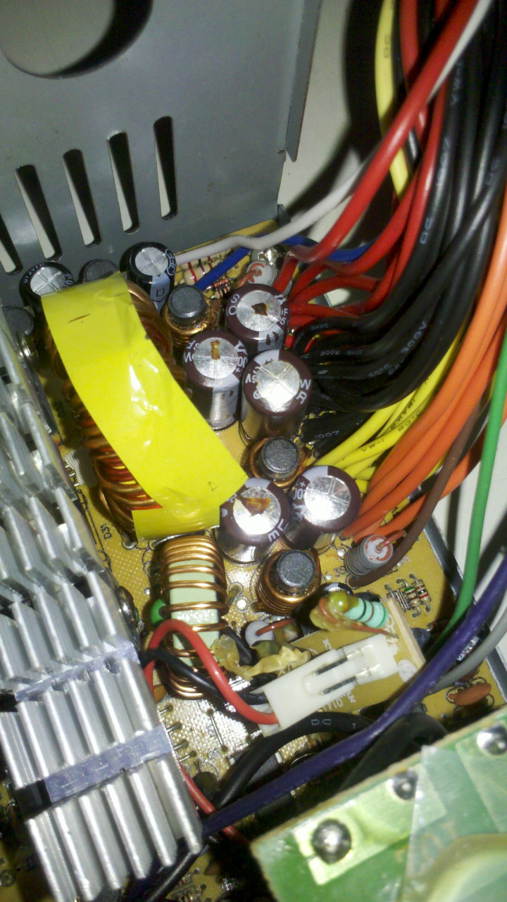 Interior of an ATX power supply showcasing bloated and exploded electrolytic capacitors in the DC output area.